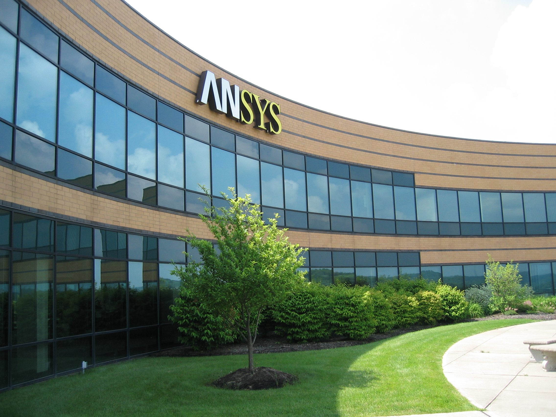 A picture of the ANSYS, Inc. Headquarters Building in Canonsburg, PA